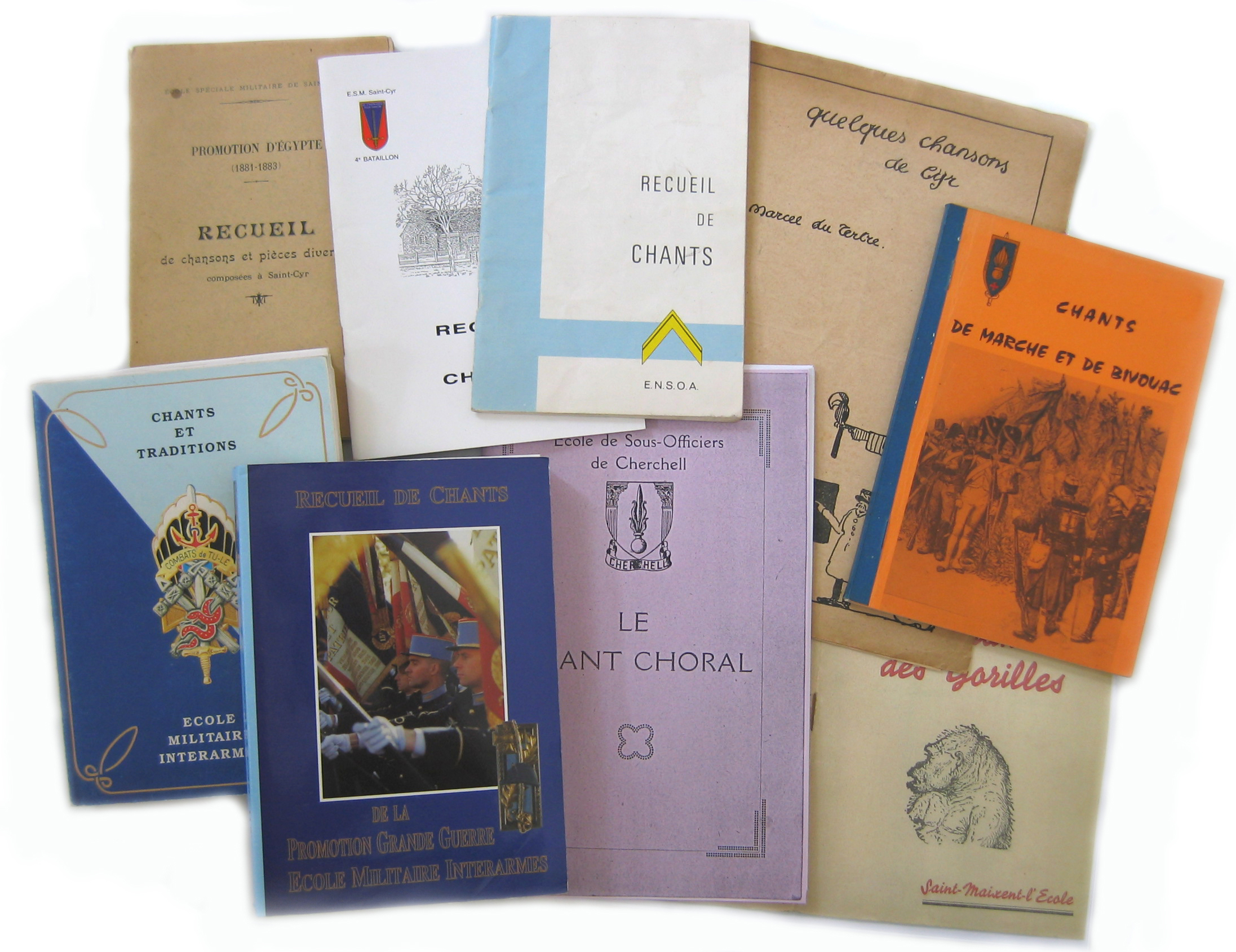 French military academy songbook